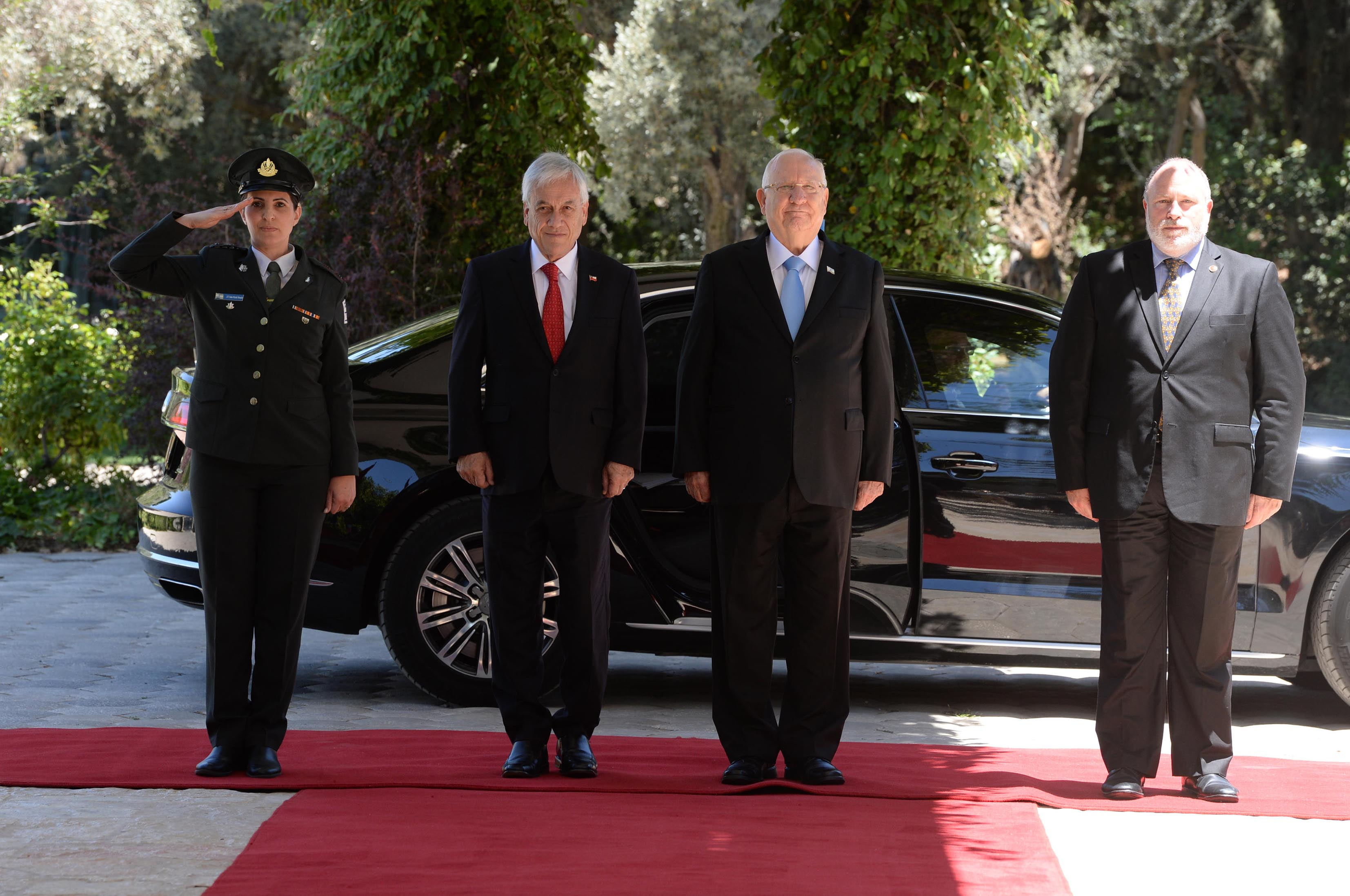 The President of Israel, Reuven Rivlin, hosting the President of Chile, Sebastián Piñera, who visited Israel. Wednesday, 26 June 2019. Photo credit: Mark Neiman / GPO.